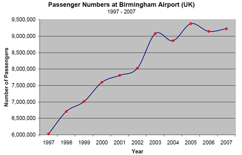 Passenger numbers at Birmingham Airport, UK (1997 - 2006) Source: UK CAA Statistics